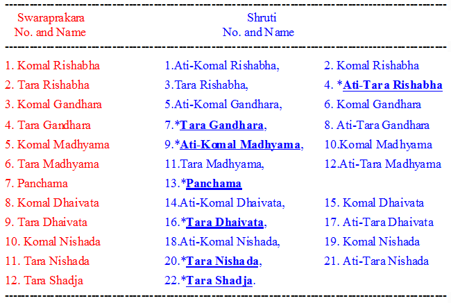 Nomenclature of 22 Shrutis or Swaras in Hindustani Music